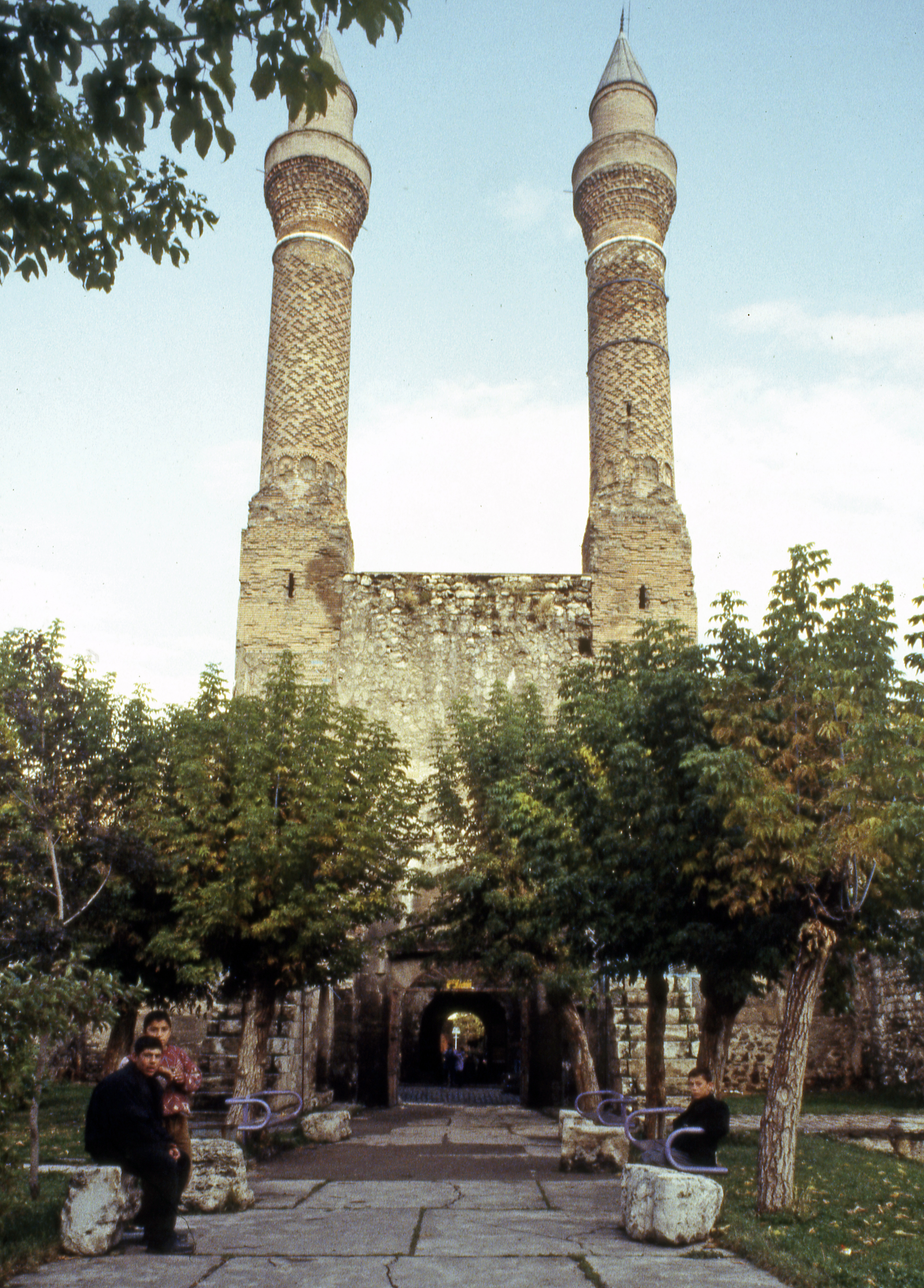 The Çifte Minare Medrese (double minaret Koran school) has been built in 1271. In its back a recent restoration shows the original ground plan, but it still is mainly important for its wonderful Seljuk façade. The restoration seemed to be almost finished in June 2011, when I visited the town again. I was told at another spot that a laser is used nowadays to evaporate the eroded parts. The result is astounding, the stone is much more white than I ever thought. I hope authorities will not allow traffic, let alone parking, in its front, as used to be the case. Though I admit that my old slides, taken before restoration, due to the effects of erosion have more contrast and as such are more to my liking. Note that a same-named medrese in Erzurum is more famous, and might be mistaken for this one.